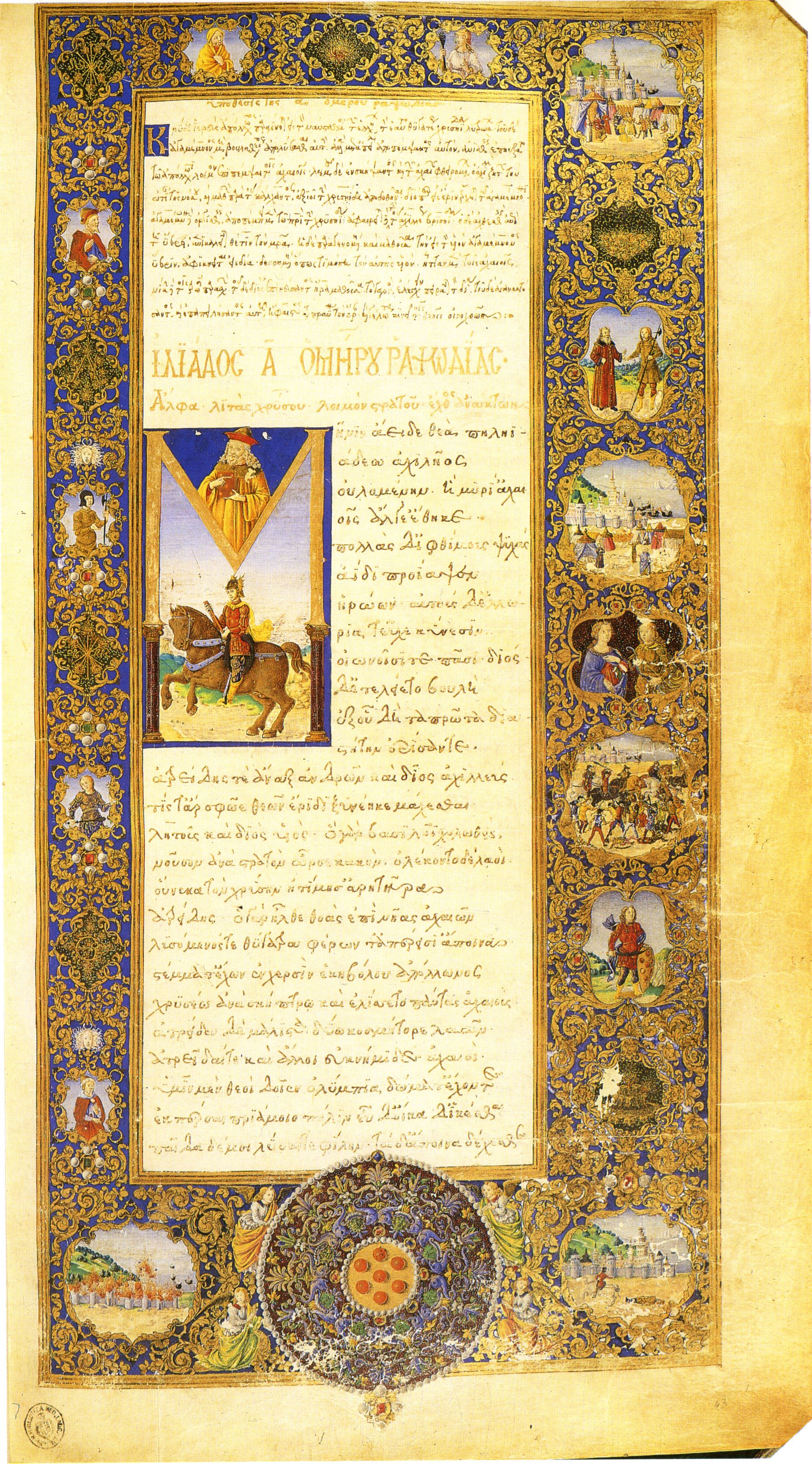 Homer’s Iliad in a manuscript with miniatures by Francesco Rosselli: Florence, Biblioteca Medicea Laurenziana, Plut. 32.4, fol. 43r.